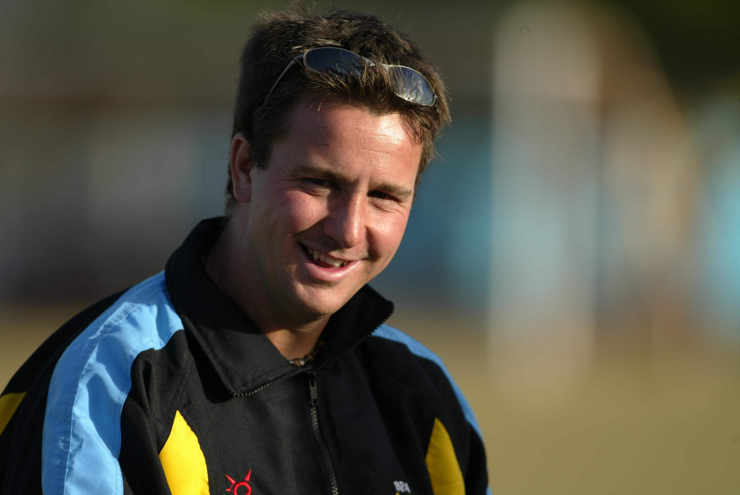 GW